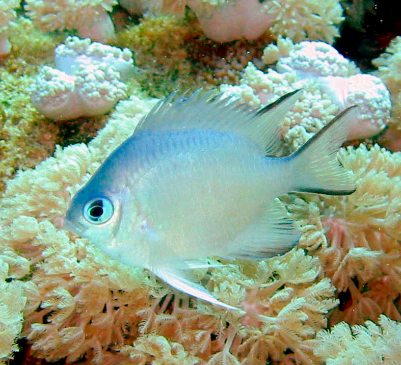 pale damselfish Amblyglyphidodon indicus dahab